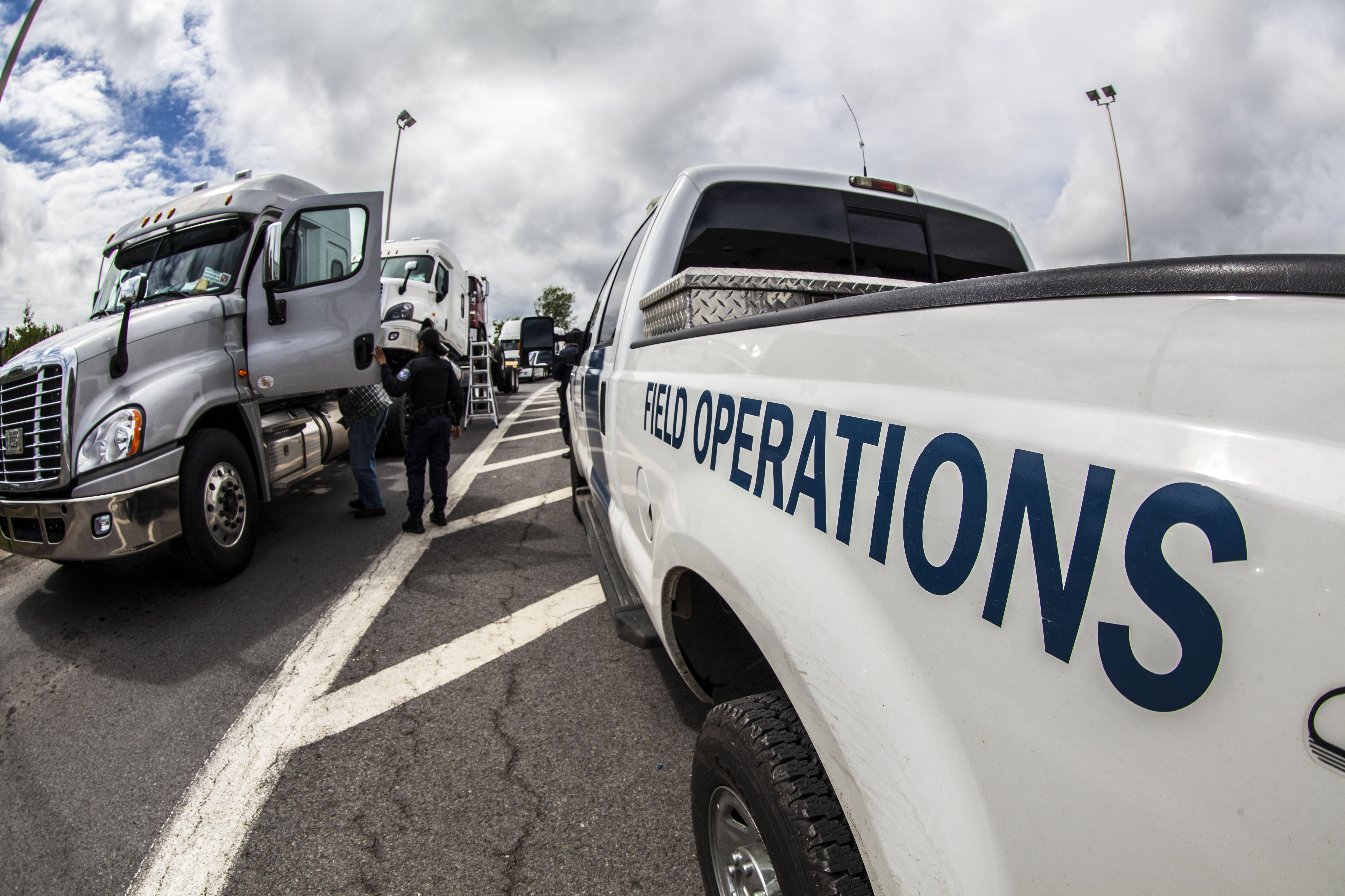 CBP officers at the Area Port of Champlain conducting 100% inspection of all truck traffic at the Area Port of Champlain on June 15 looking for Richard Matt and David Sweat. Photographer: Kristoffer Grogan